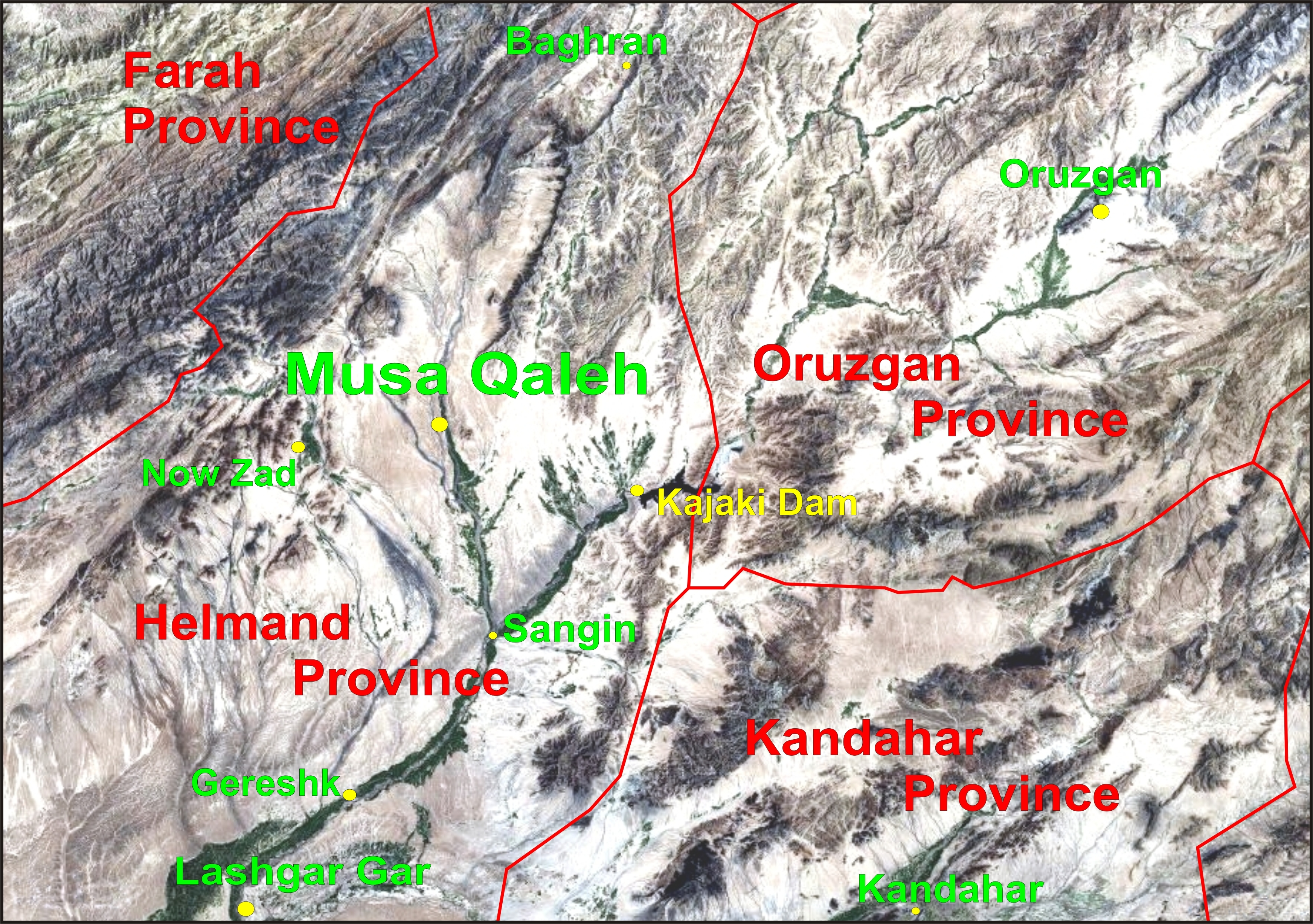 Northwest Helmand Province, Afghanistan. Overlay of names using CorelDraw